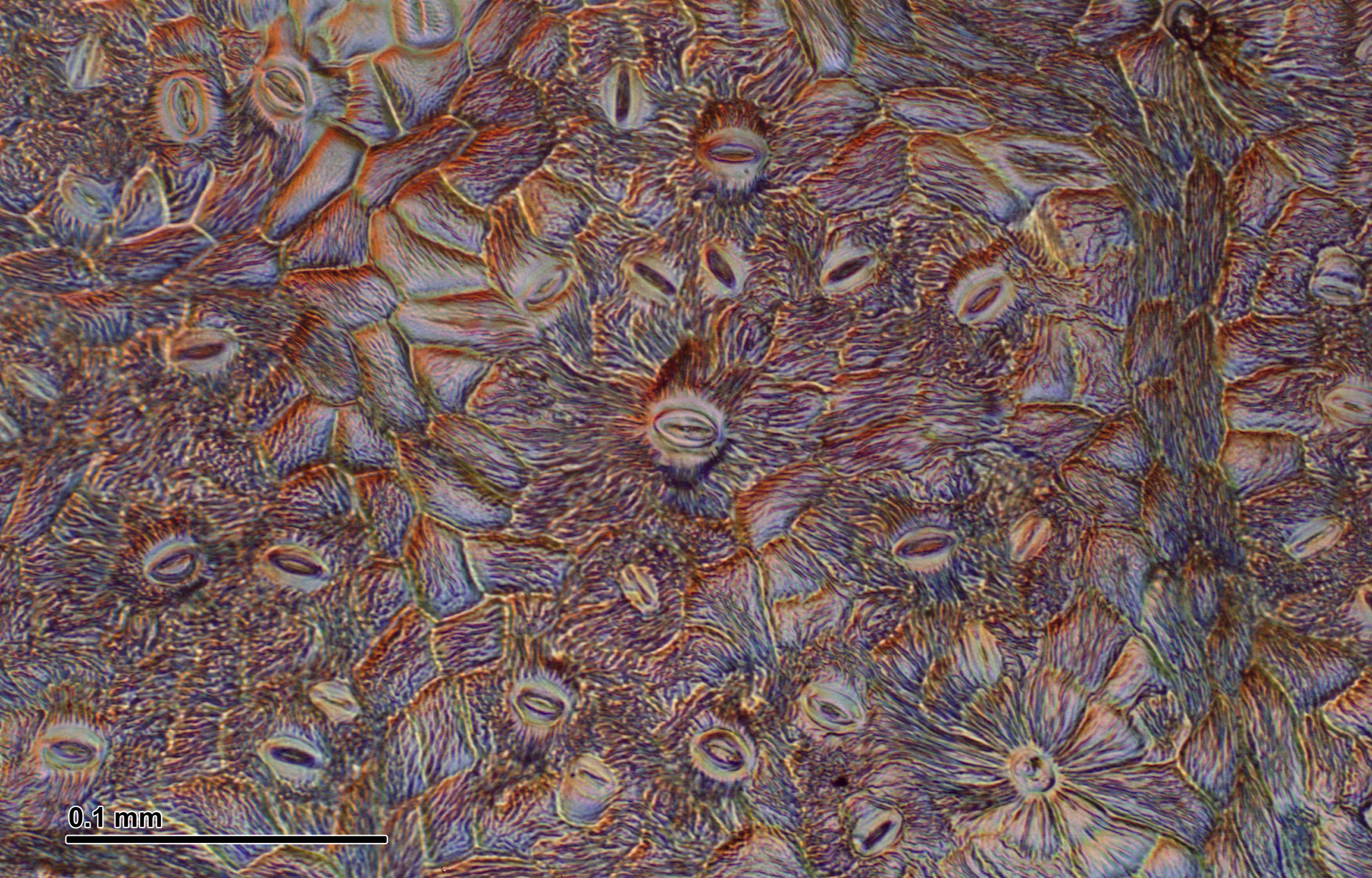 Plant leaf epidermis: Lower epidermis of lime tree (Tilia). Optical microscopy technique: Differential interference contrast (Nomarski). Magnification: 600x (for picture width 26 cm ~ A4 format).